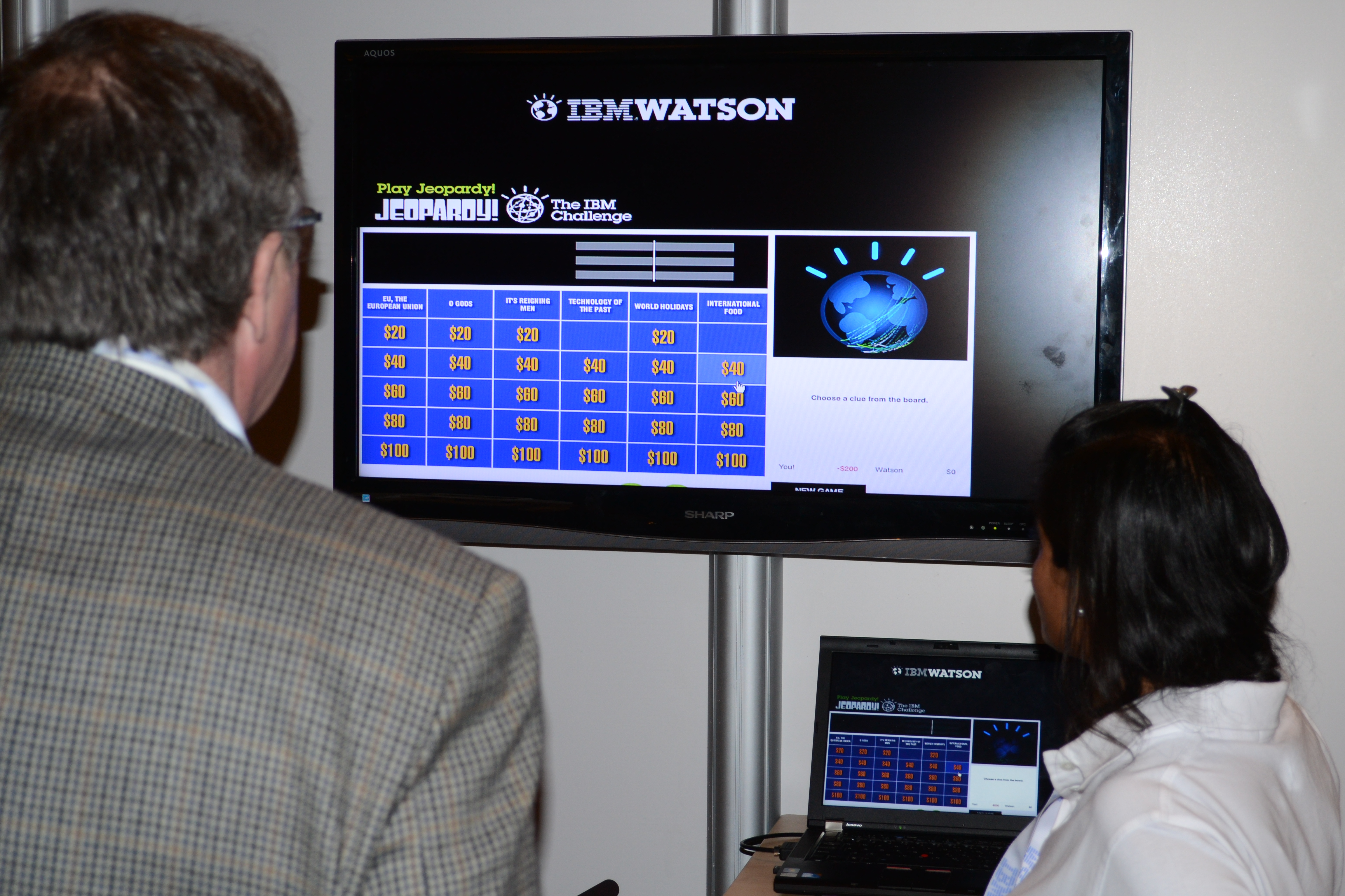 Watson demoed by IBM employees.